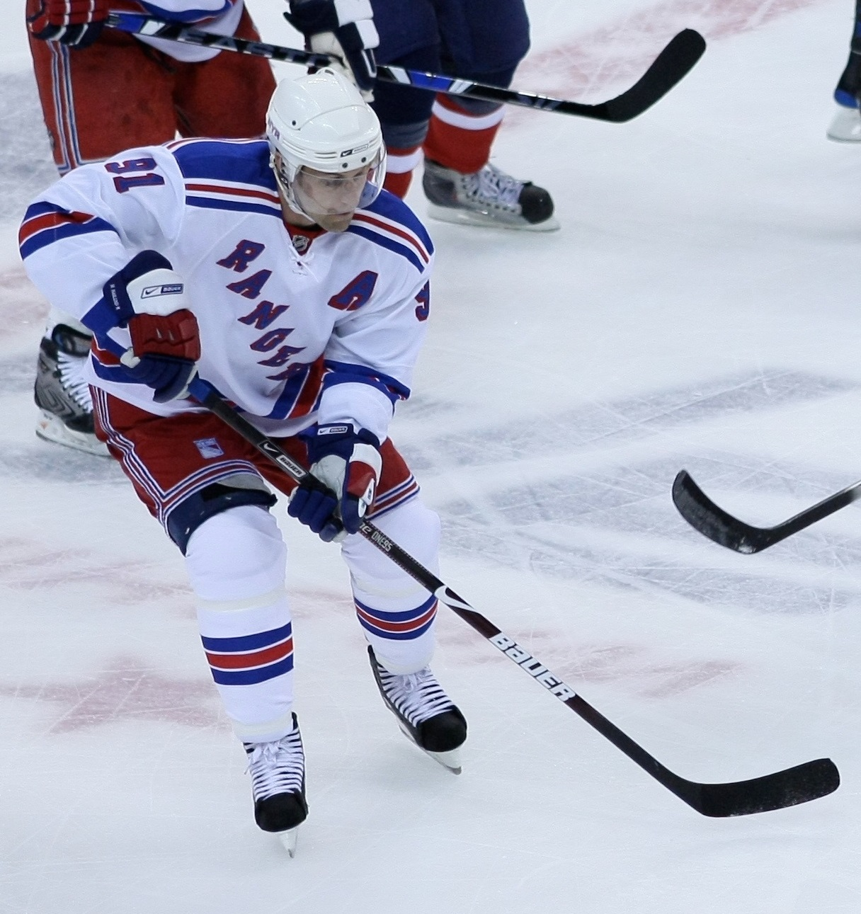 New York Rangers forward Markus Naslund during the 2009 playoffs against the Washington Capitals.